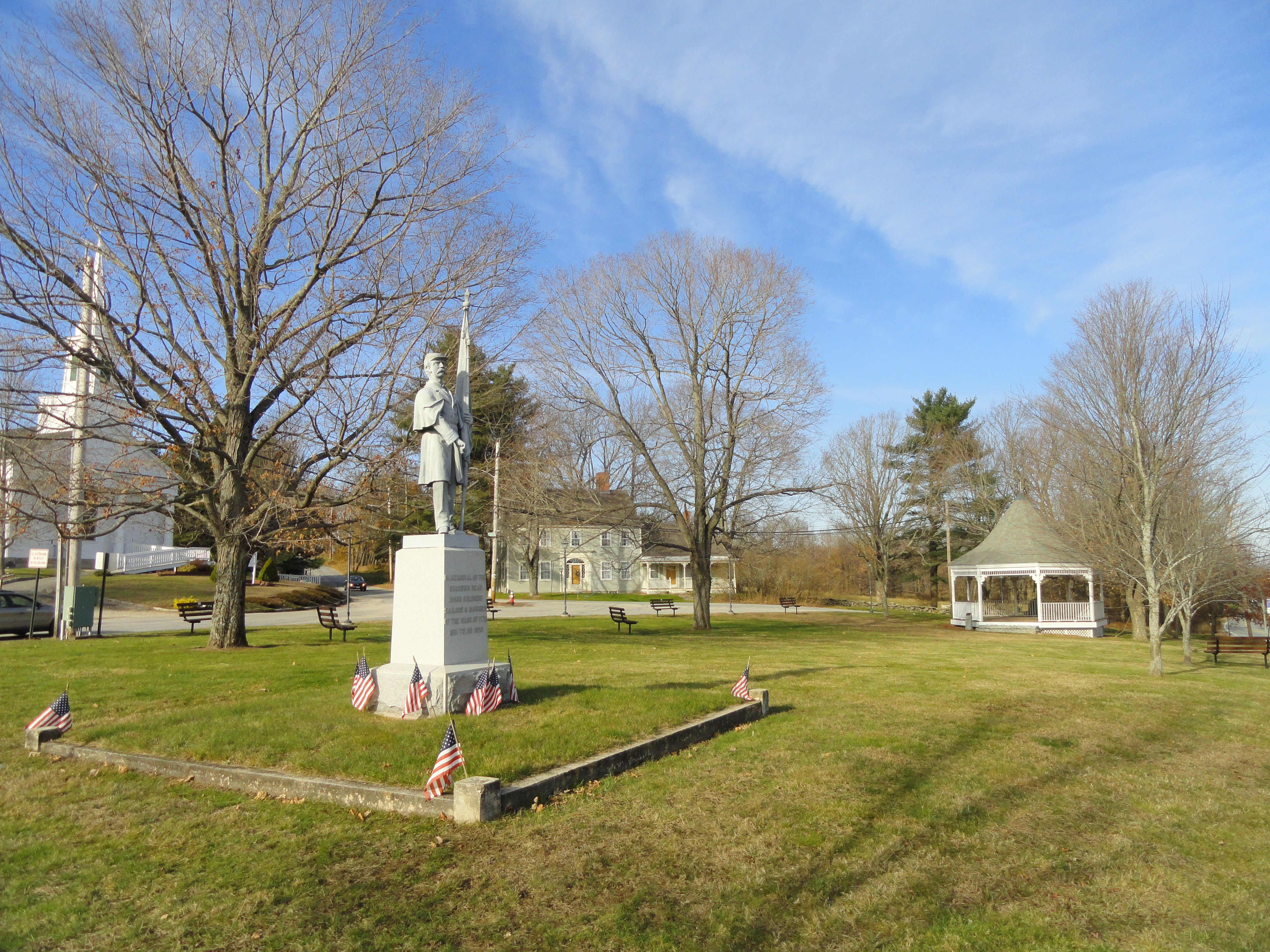 Old town common, Douglas, Massachusetts, USA.